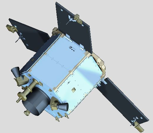 DubaiSat-1, owned and operated by Mohammed Bin Rashid Space Centre, Dubai